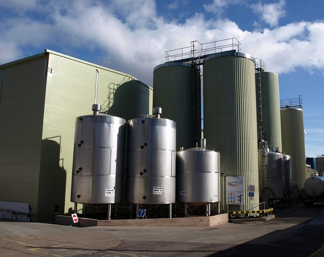 Dairy depot, Crediton. This makes an odd neighbour for 1745832, just across Church Lane. The Express Dairies depot was acquired by Milk Link in 2002.